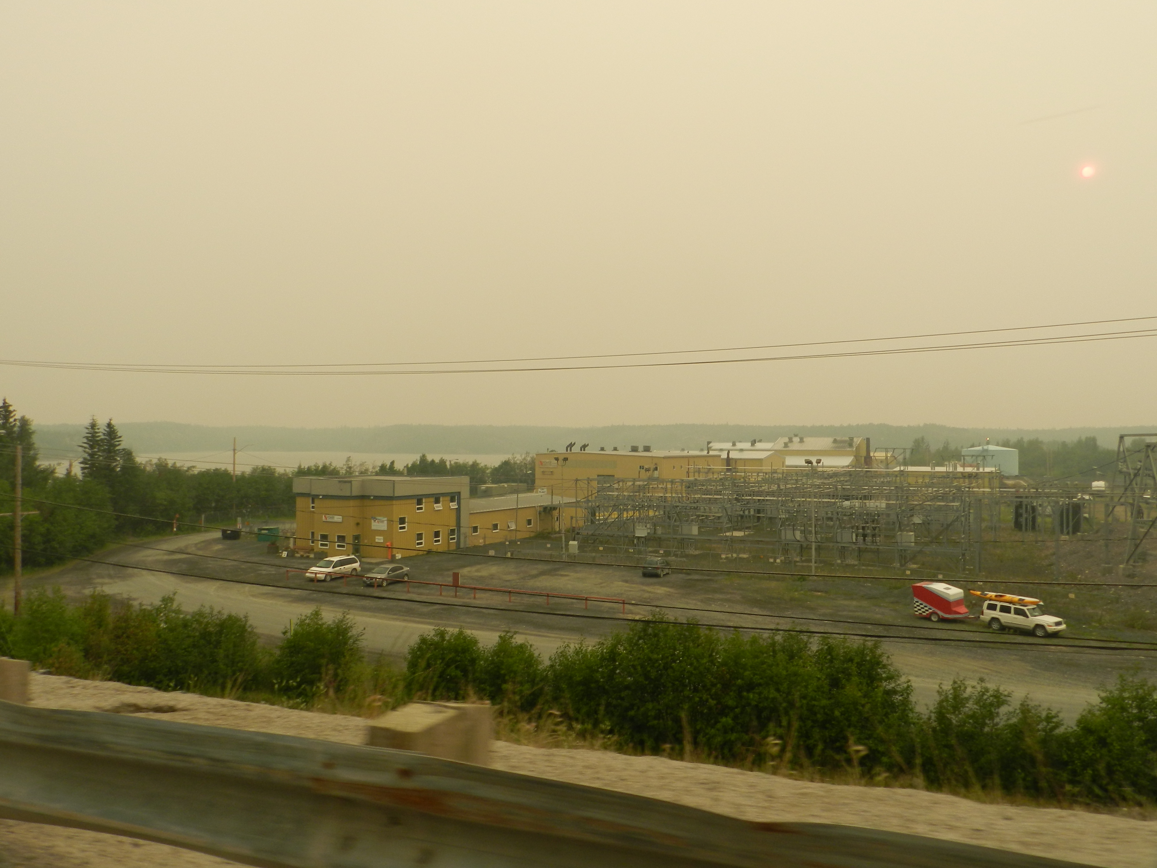 Jackfish Lake generating station